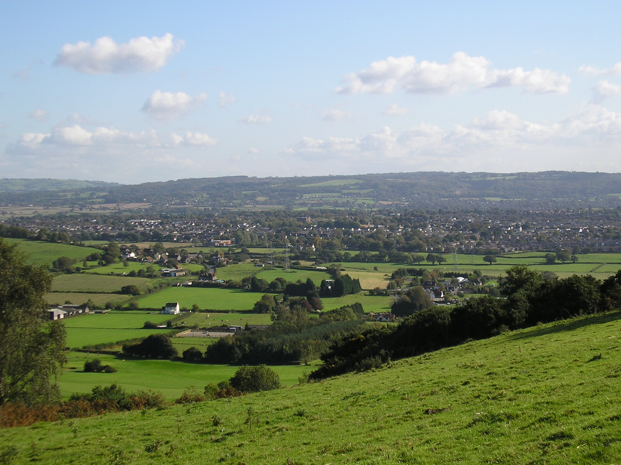 View over the town of Nailsea, North Somerset, from Cadbury Camp Hill Fort in Tickenham.